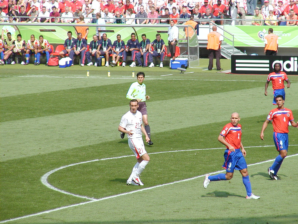 Ireneusz Jelen, World Cup 2006, Match #34 Costa Rica:Poland 20-Jun-06 Hanover